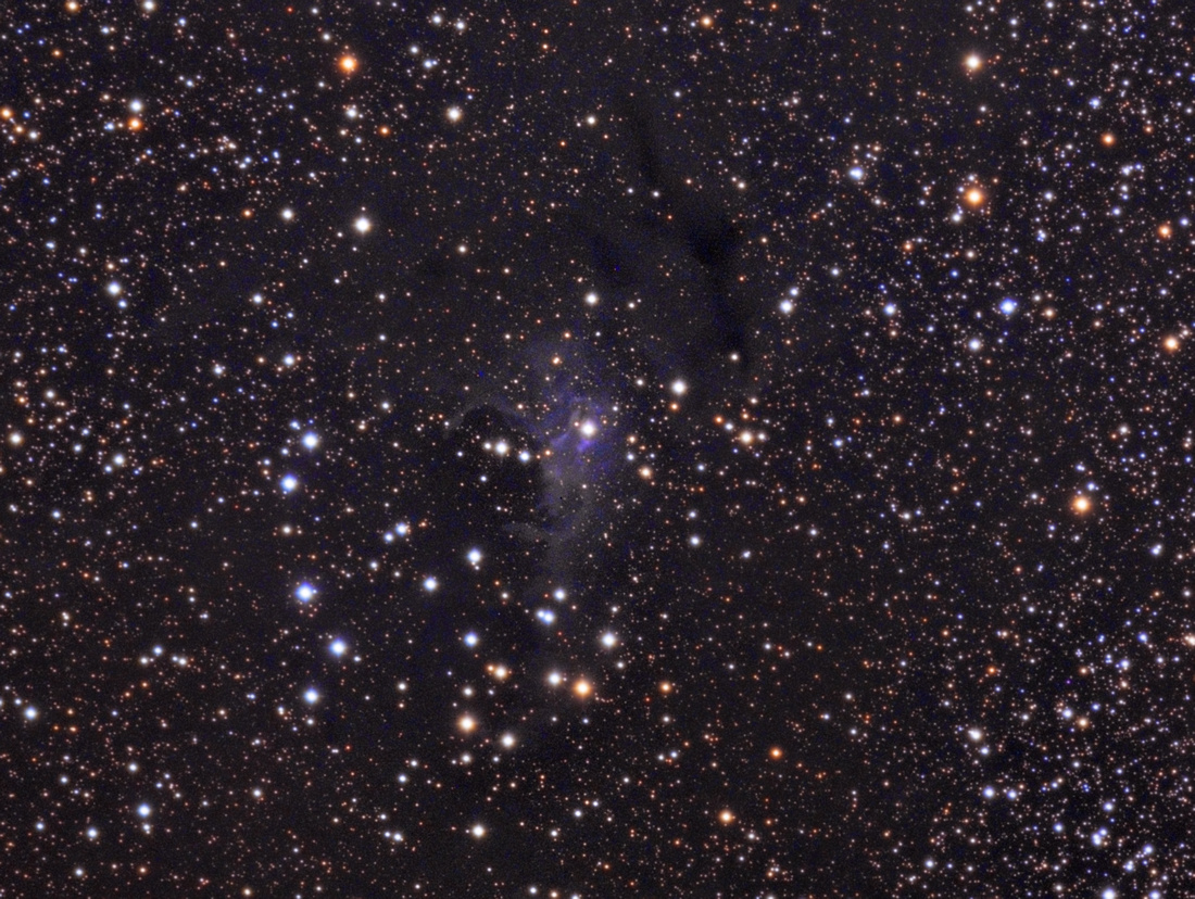 NGC 225 in Cassoipeia with VdB4 and LDN1302 above